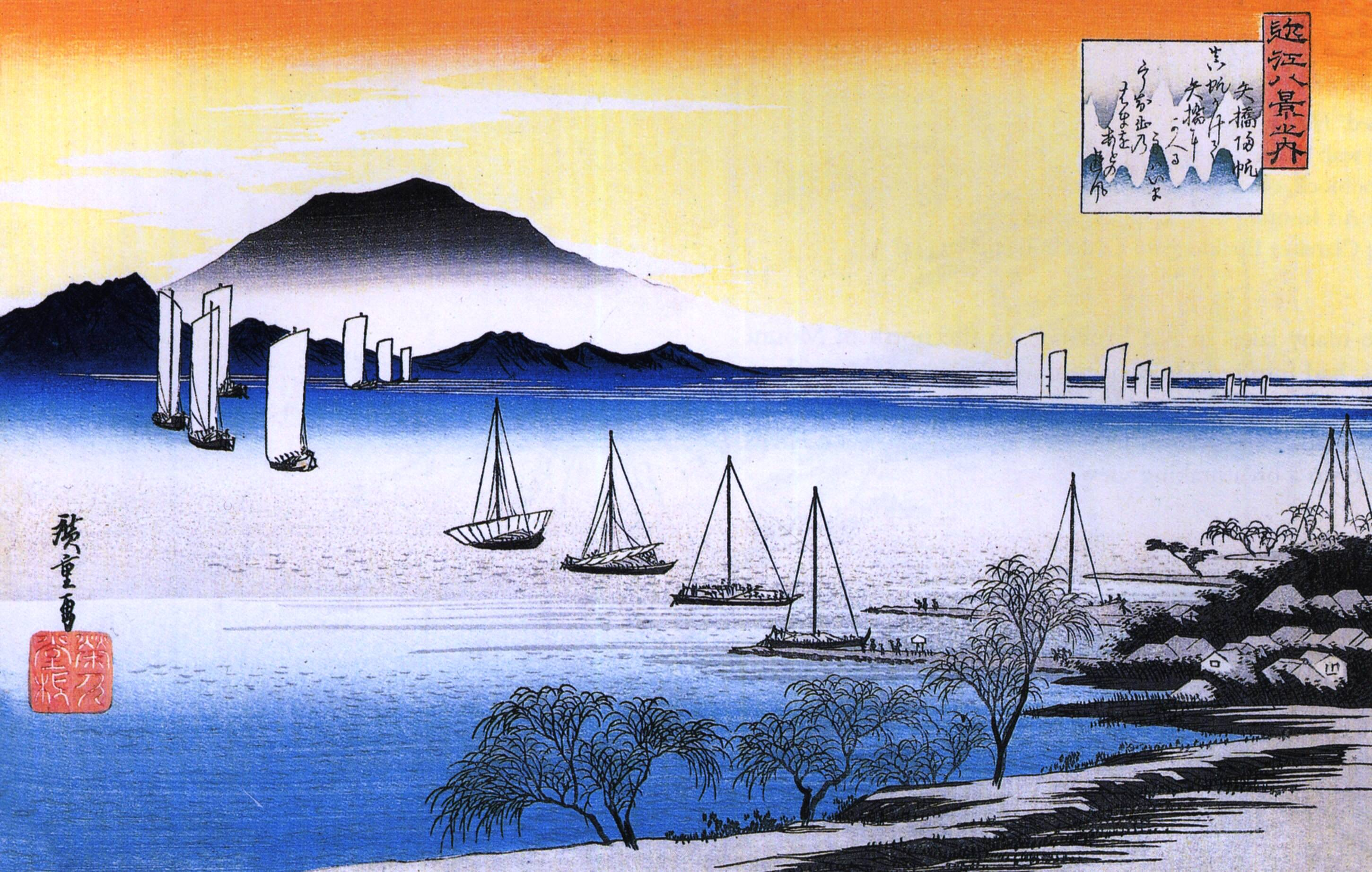 8 Views of Omi - #5. Returning Boats, Yabase